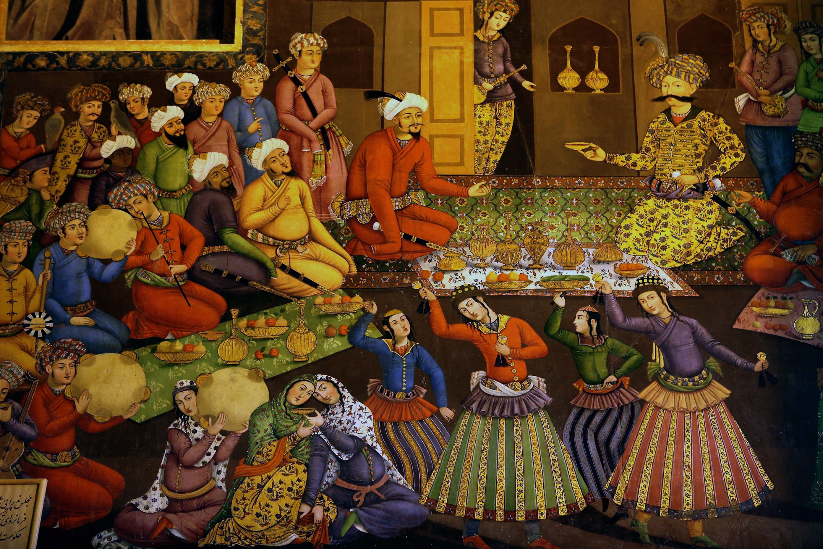 Shah Abbas I and Vali Muhammad Khan. From Chehel Sotoun palace, Isfahan.